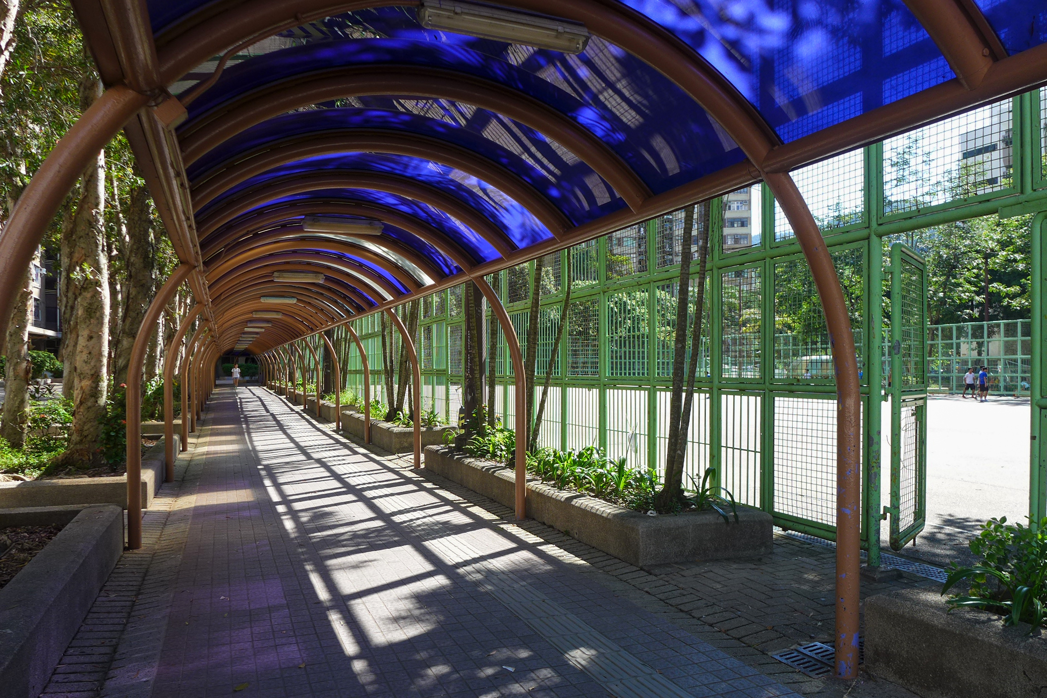 Hin Keng Estate Phase 1 Coverway